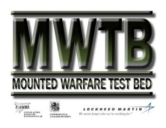 MWTB Logo from 2005